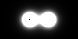 The magnitude of an electric field surrounding two oppositely charged, point-like particles.